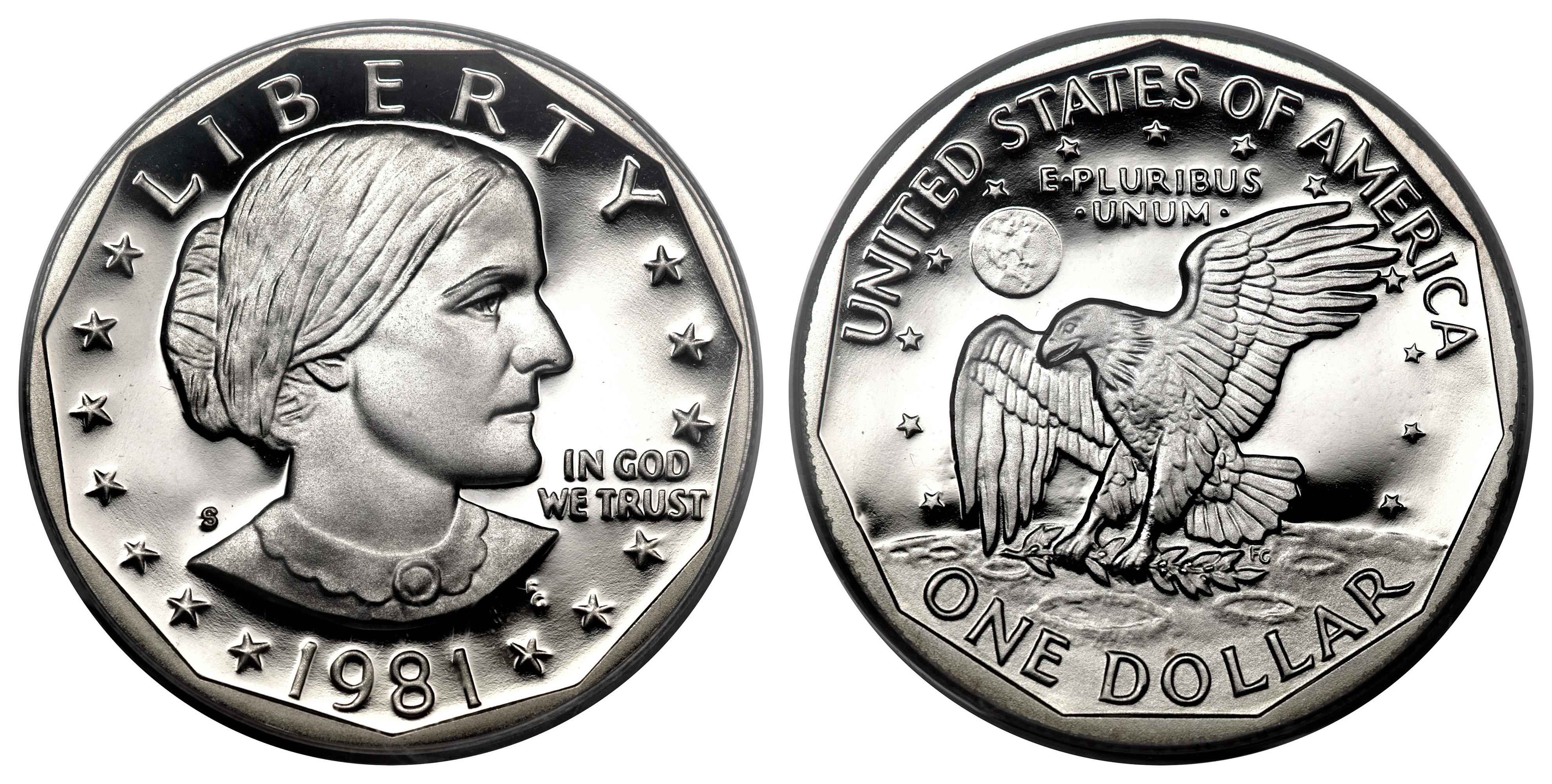 1981-S SBA$ Type Two Deep Cameo(1139-1449)